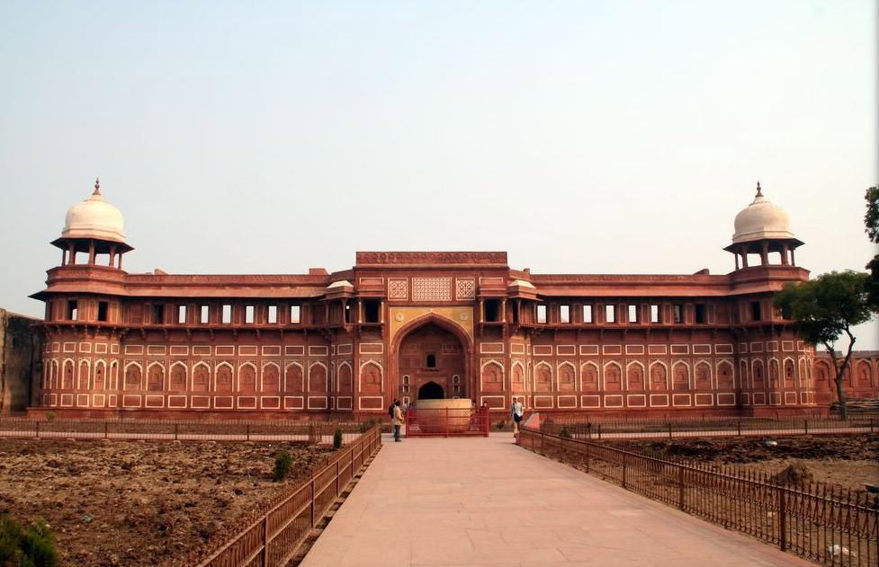 Jehangirs Palace in Agra Fort